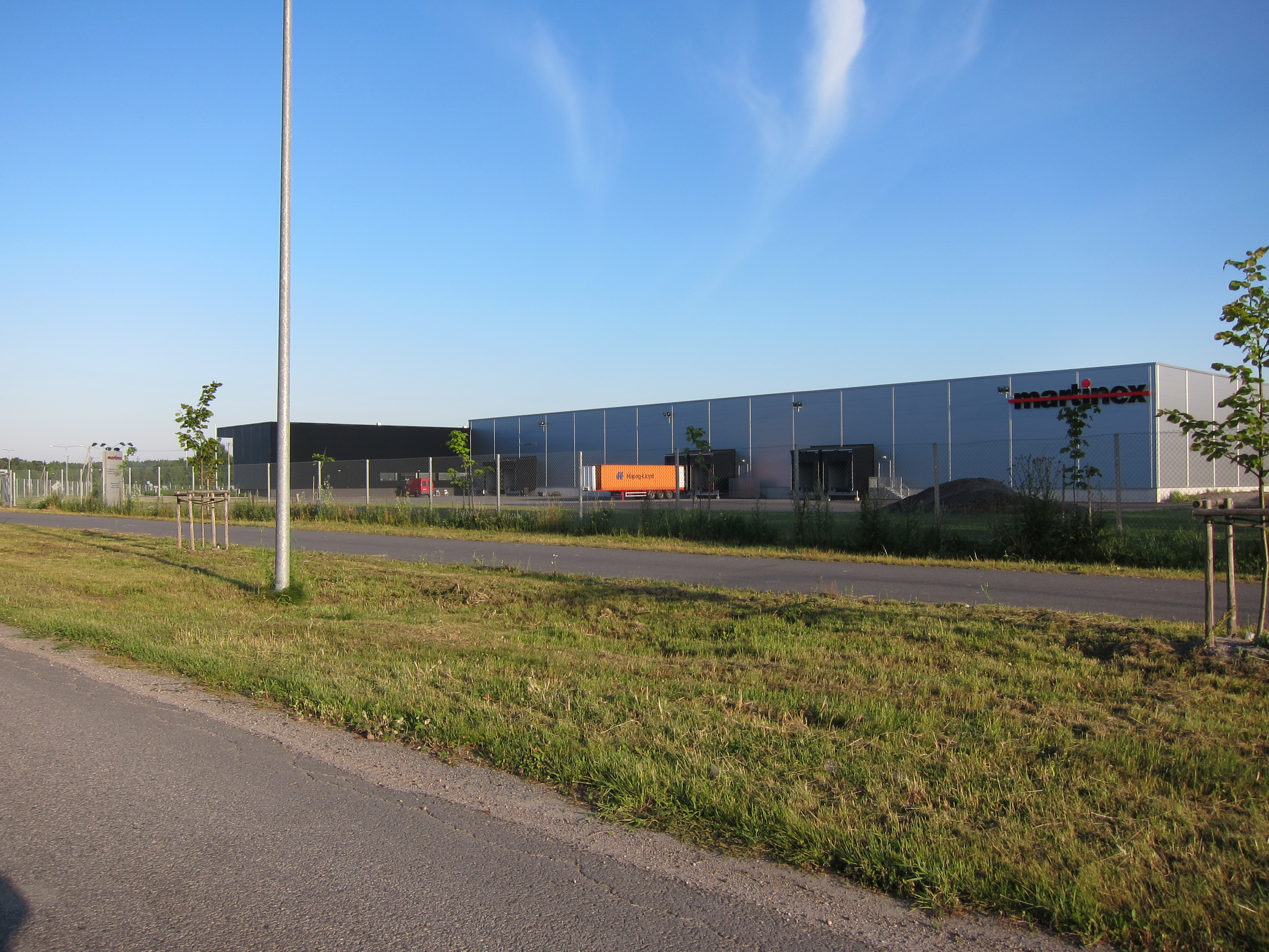 Oy Martinex Ab building in Raisio, Finland.